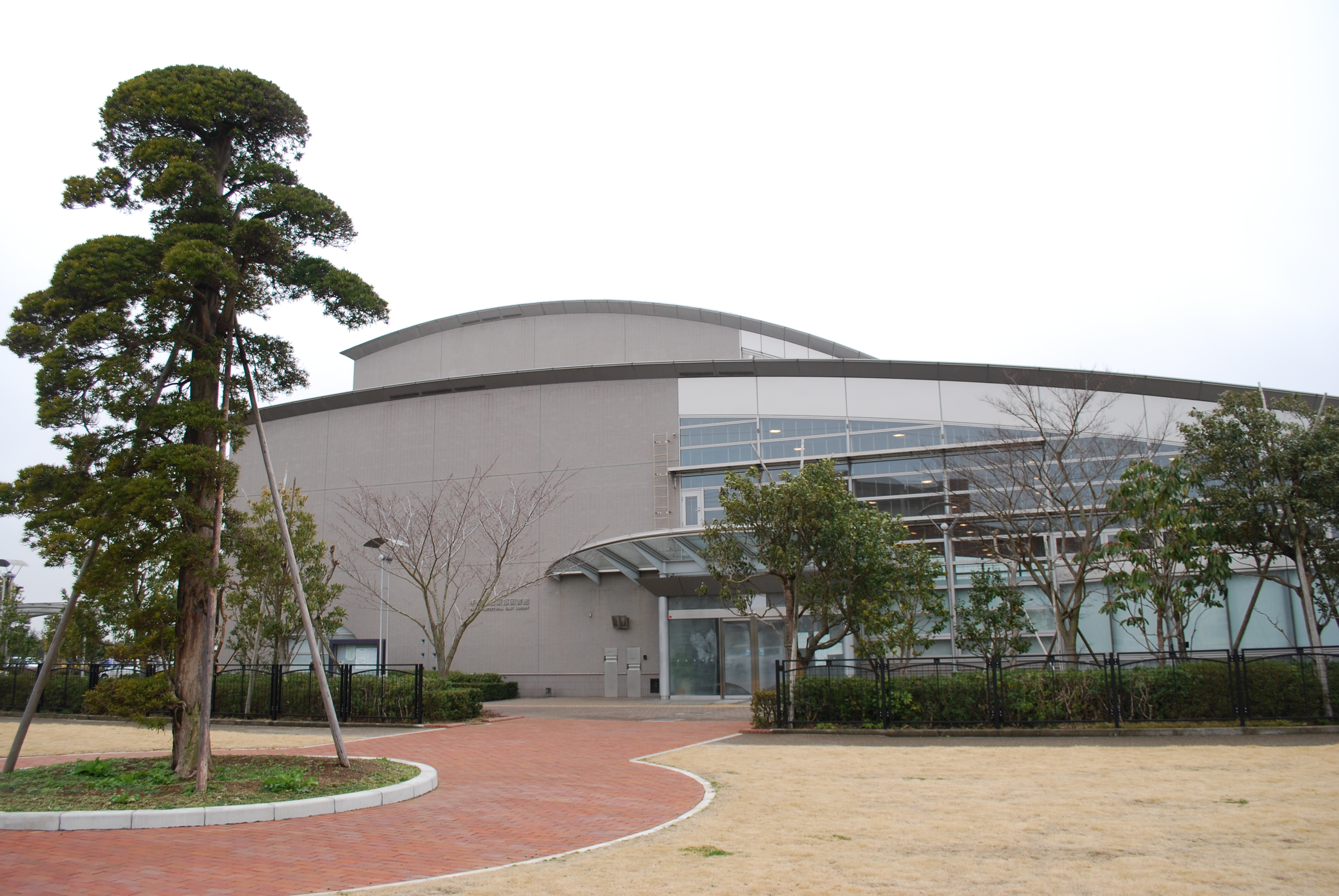 Chiba-prefectural-east-library,Asahi-city,Japan